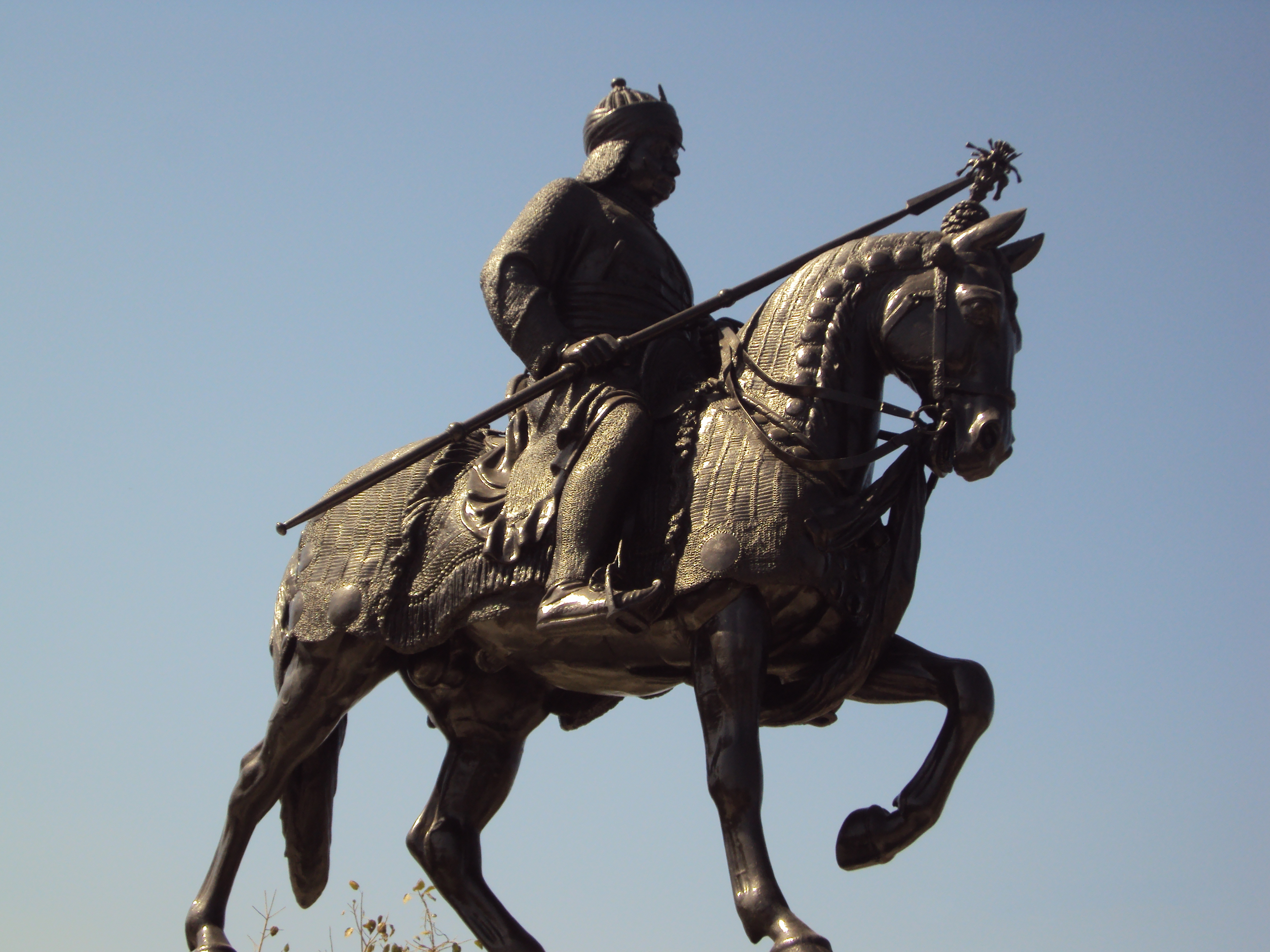 Moti Magri (Udaipur)